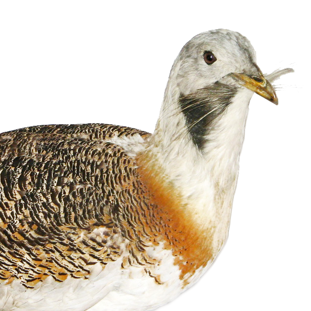 Portrait of great bustard